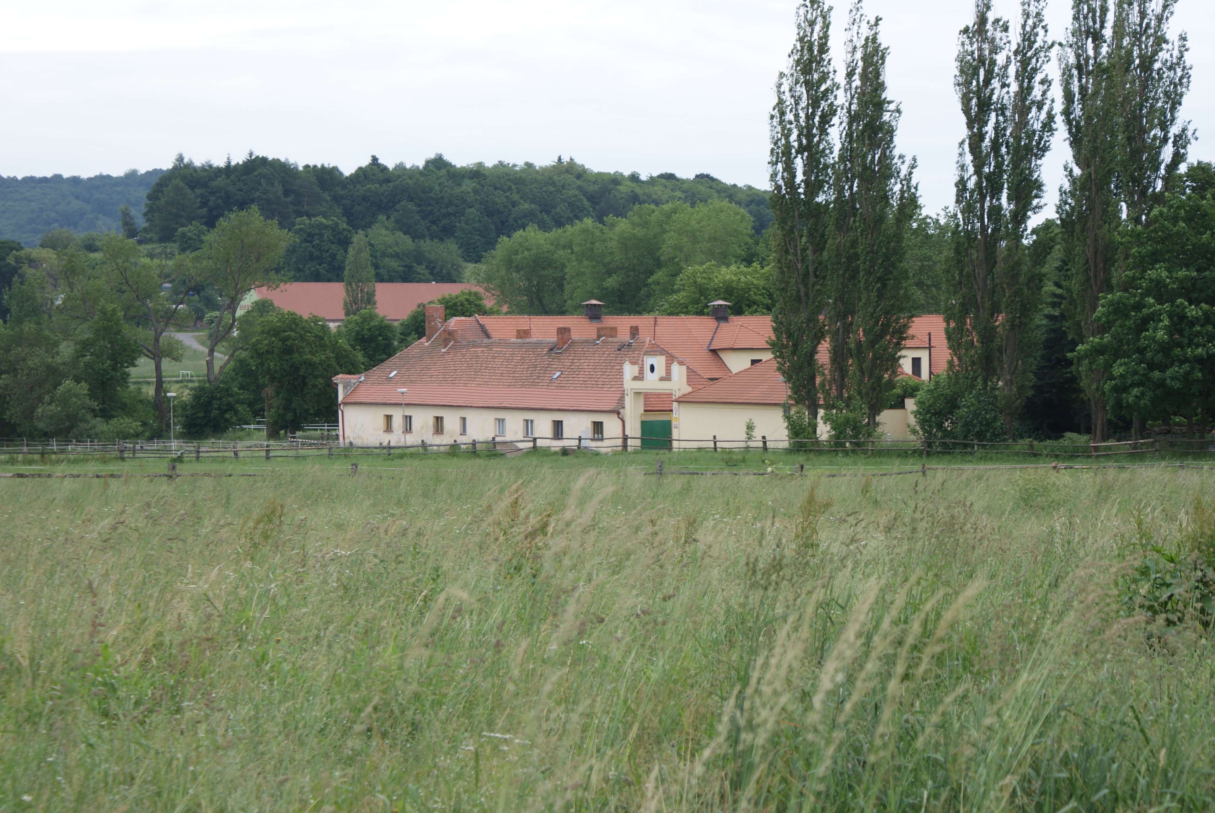 Nový Dvůr, part of Písek, Czech Republic, view of the stud farm.